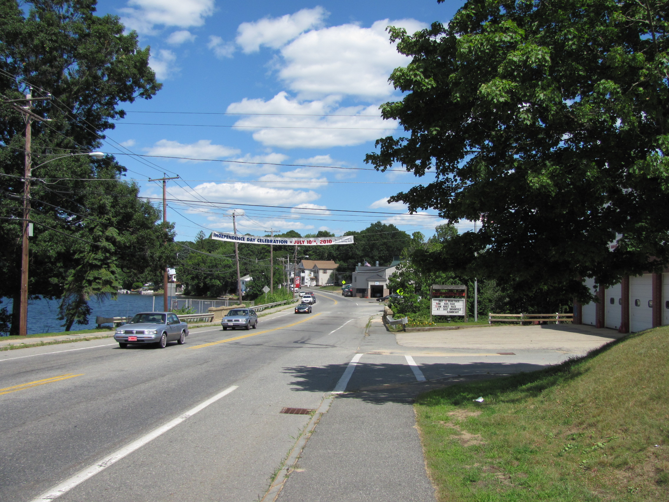 East Main Street, East Brookfield Massachusetts, July 2010